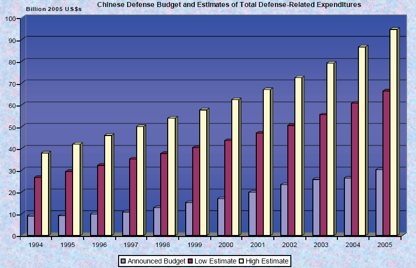 Chinese Defense Budgets and Estimates of Total Related Expenditures